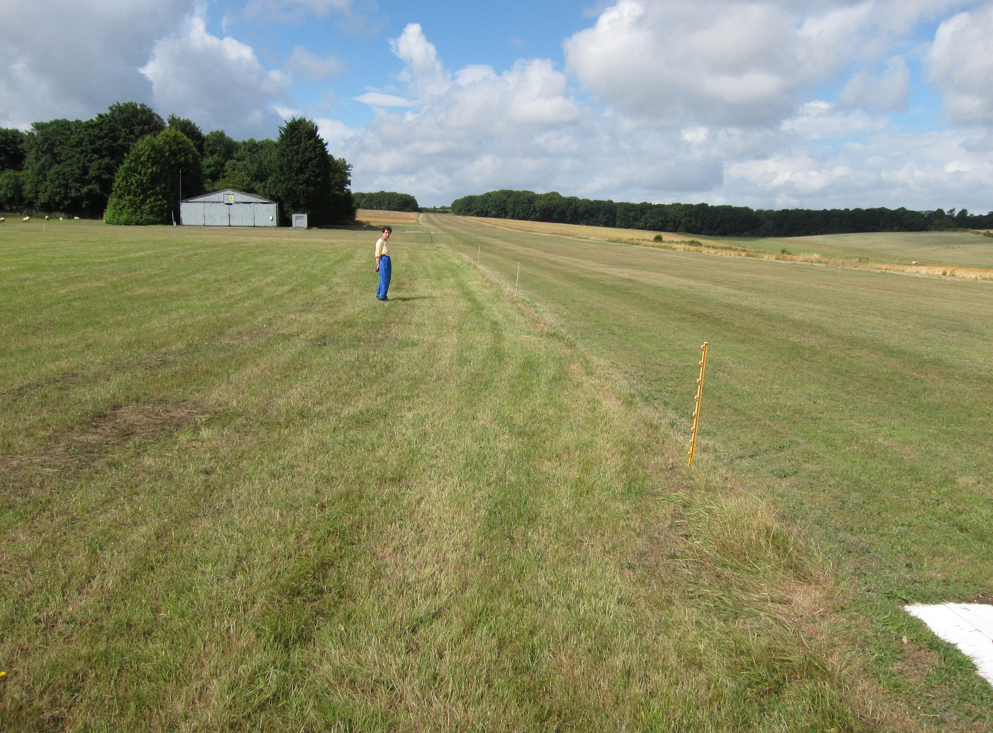 The grass airstrip on the Badminton estate, Badminton, South Gloucestershire, England. Notice the simplicity of the strip - no lighting, no centreline and no approach aids. I believe it is used very little except during the Badminton Horse Trials.